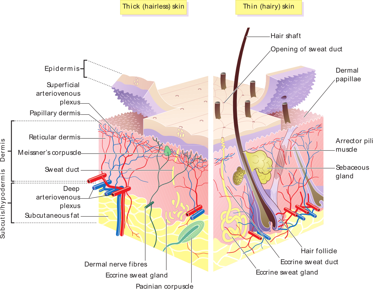 Skin layers